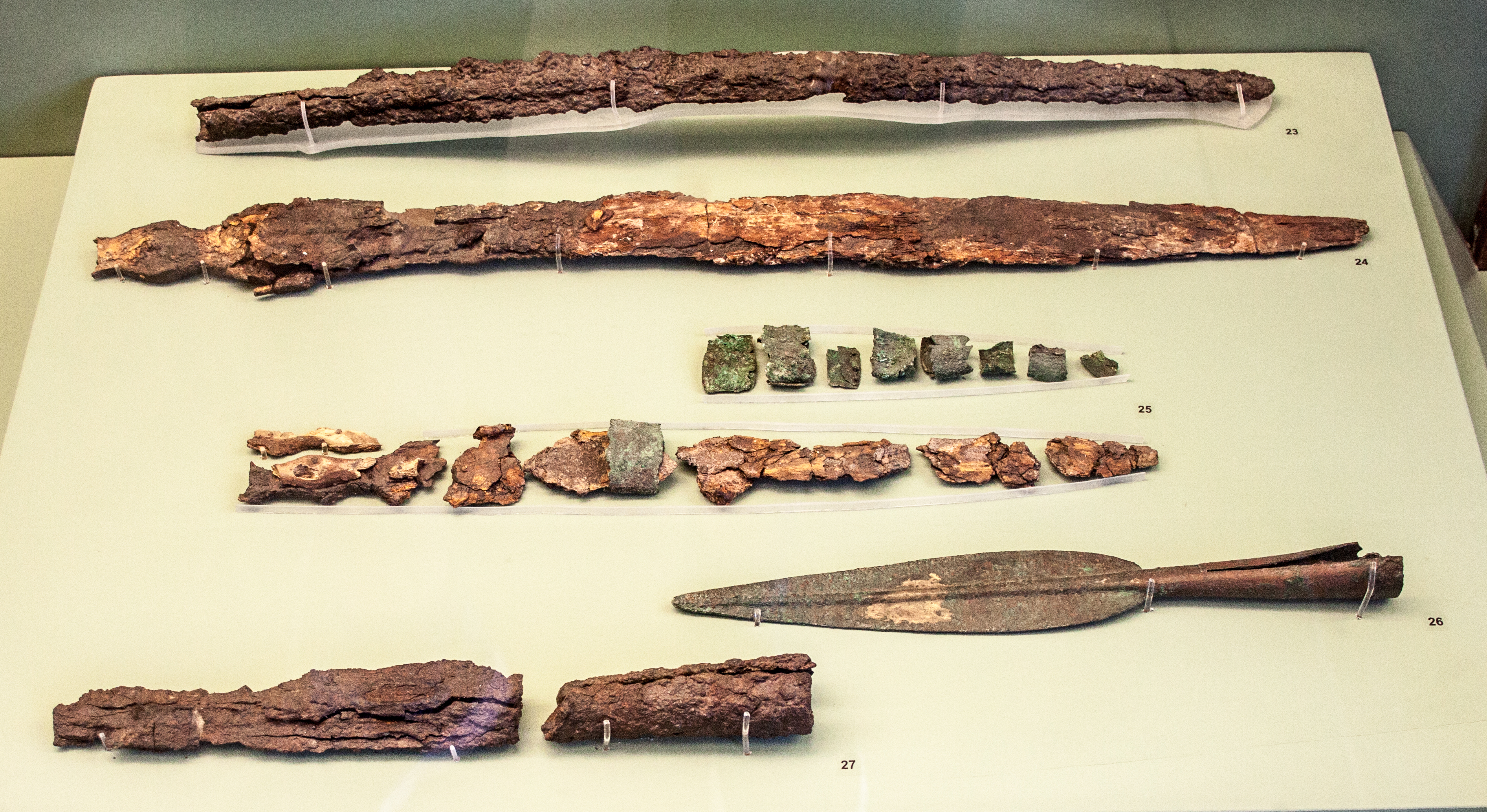 Iron and bronze arms from a cinerary amphora with bronze Cypriot bowl used as a lid